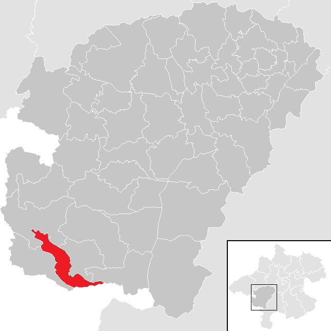 District Vöcklabruck